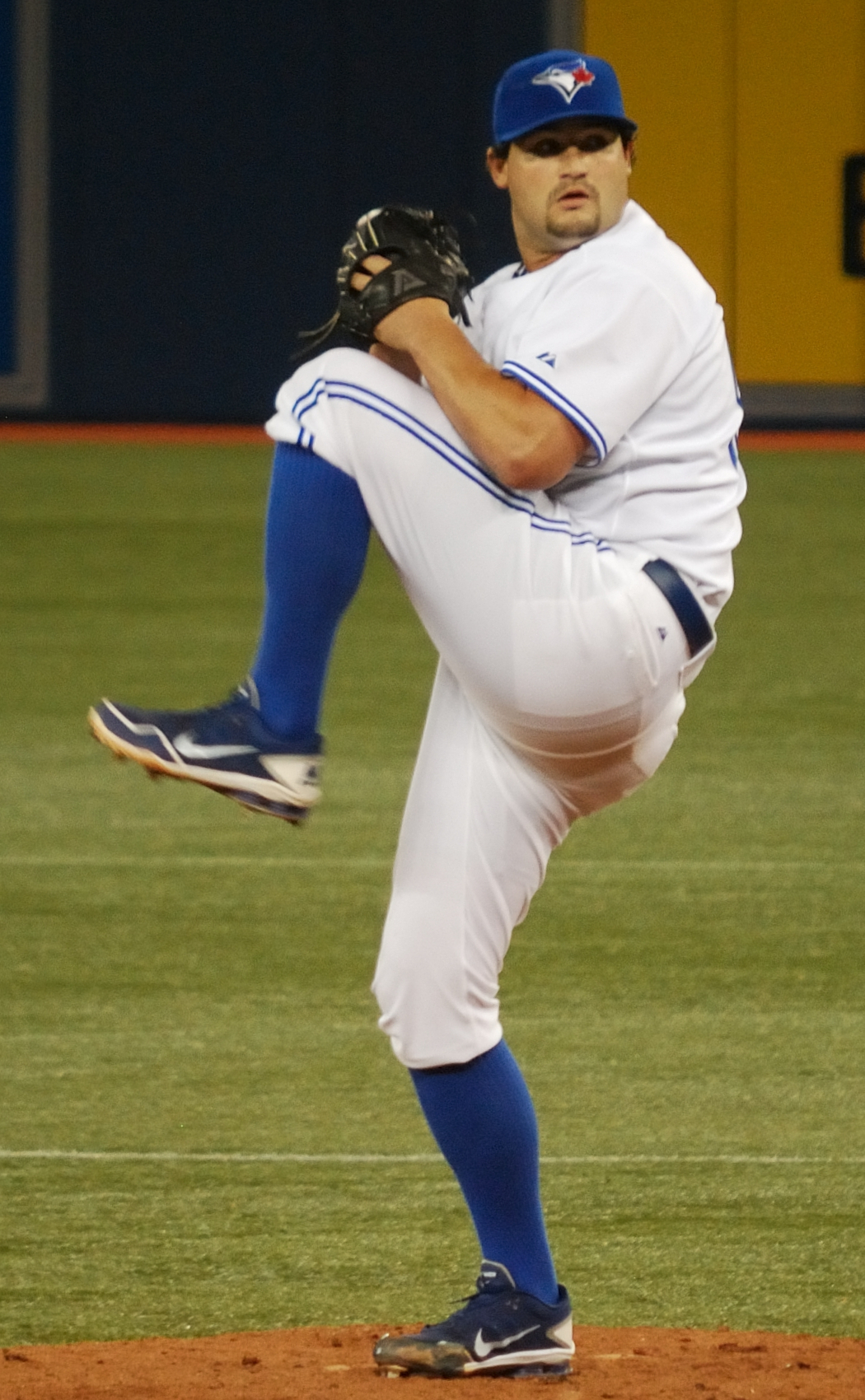 Chad Beck